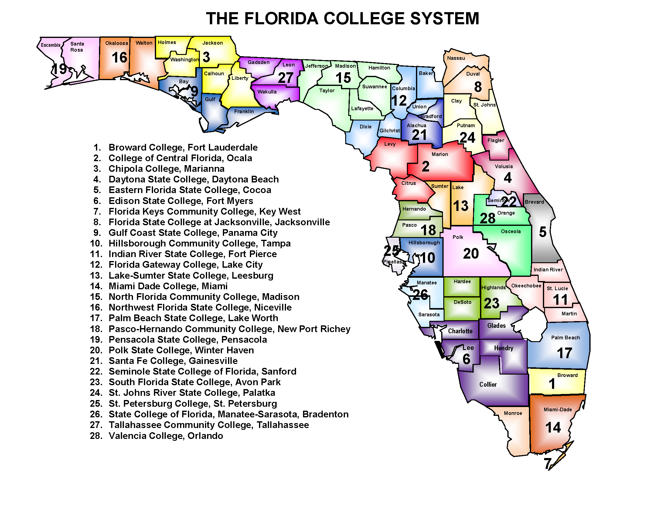 Map of the 28 colleges in the Florida College System